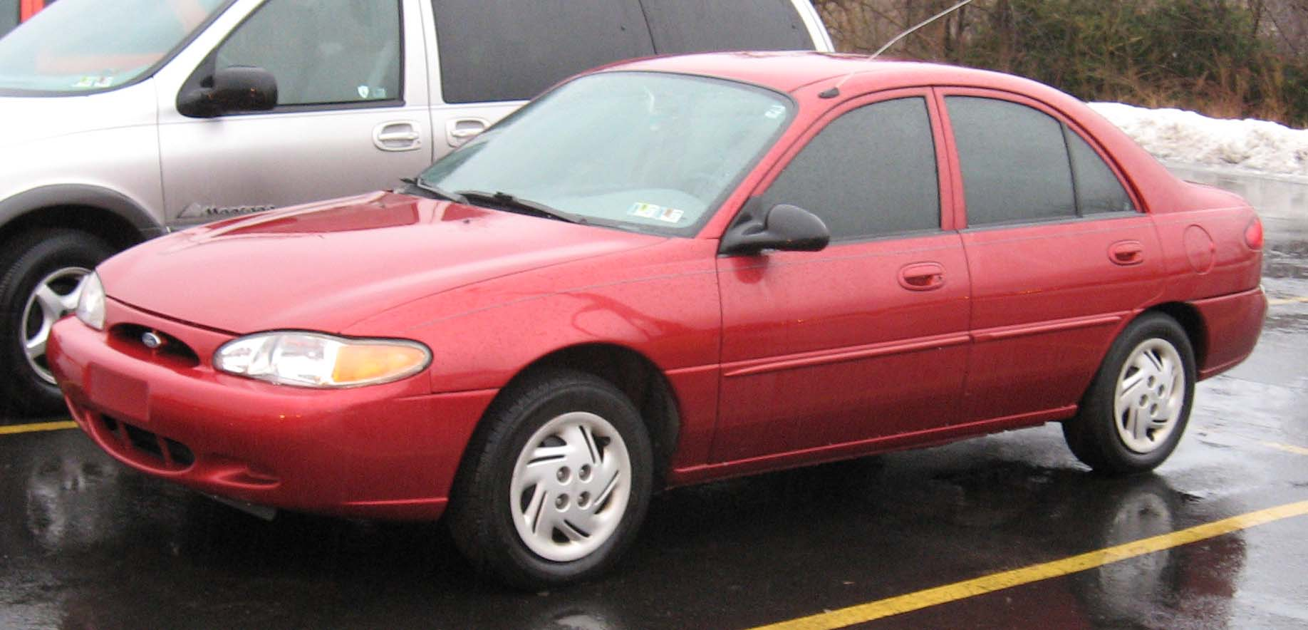 1997-2001 Ford Escort photographed in USA.